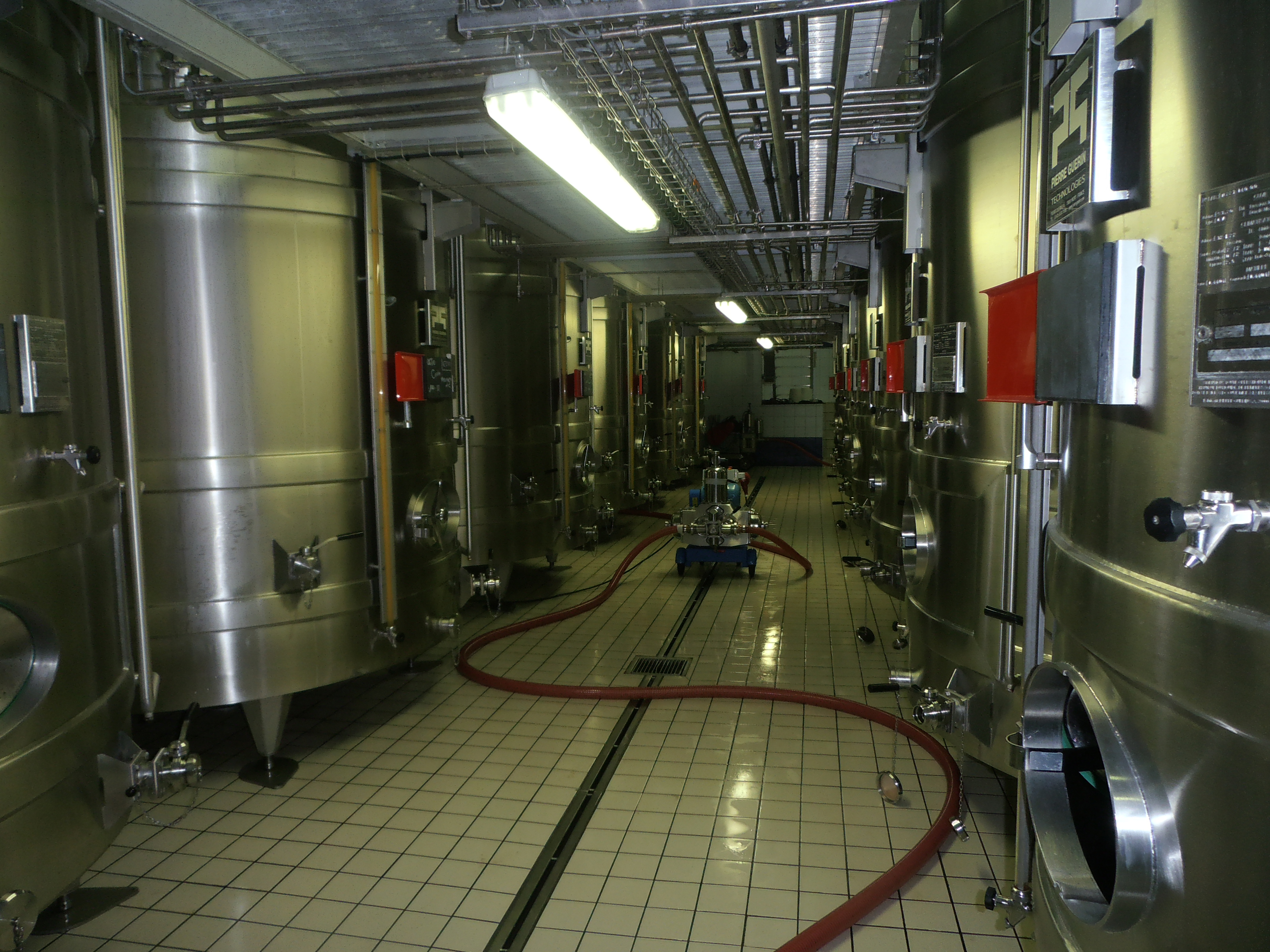 Cooperative vinicole Coloummes Vrigny in Coulommes-la-Montagne: area with presses and tanks for maceration and vinification